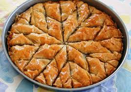 A delicious food which is prepared for fiests